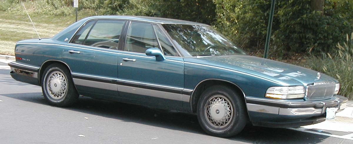 1991-1996 Buick Park Avenue photographed in USA.